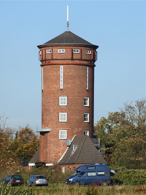 Bredstedt, Slesvic-Holstein (Germany): water-tower, photo 2008